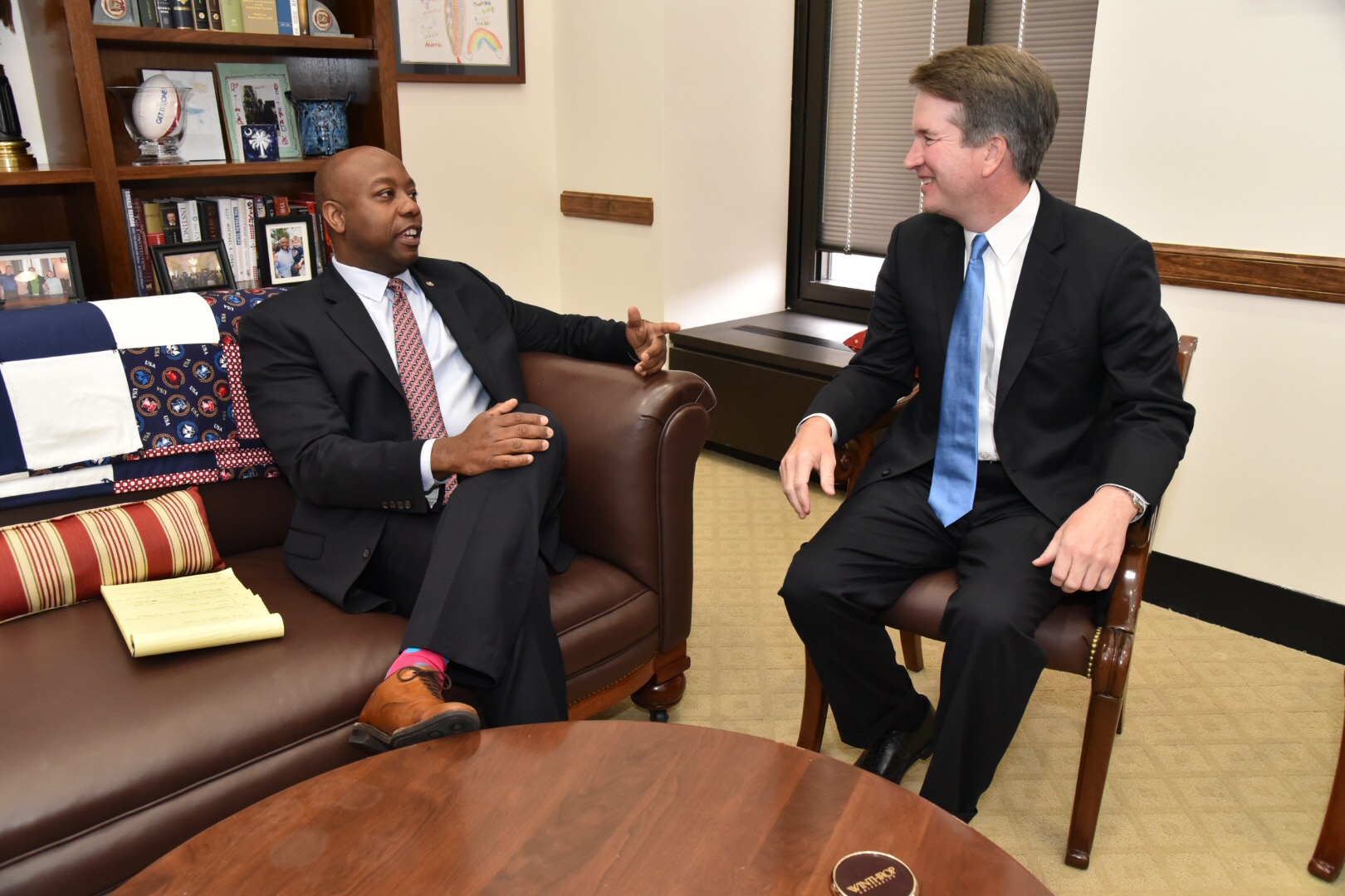 Senator Tim Scott meets with Judge Brett Kavanaugh in his office.